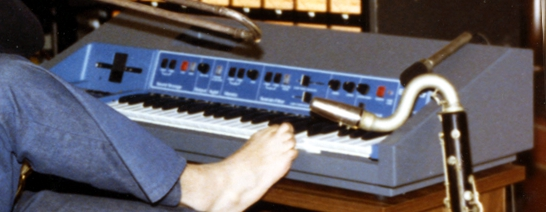 E-mu Emulator I (1982-1983) right angled